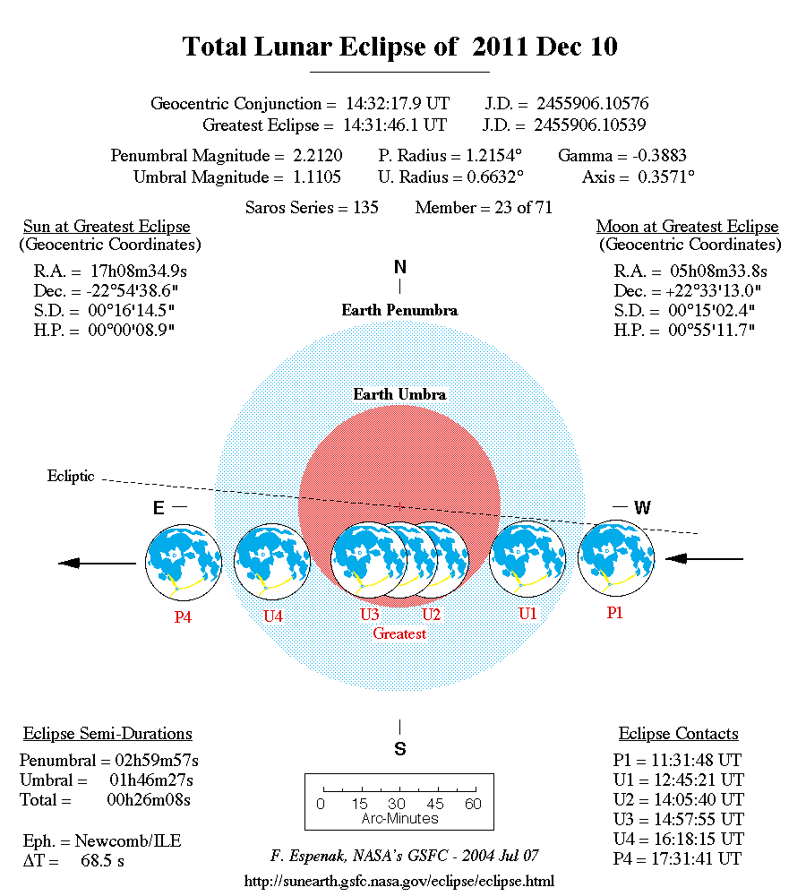 Sketch of the 2011-12-10 lunar eclipse.